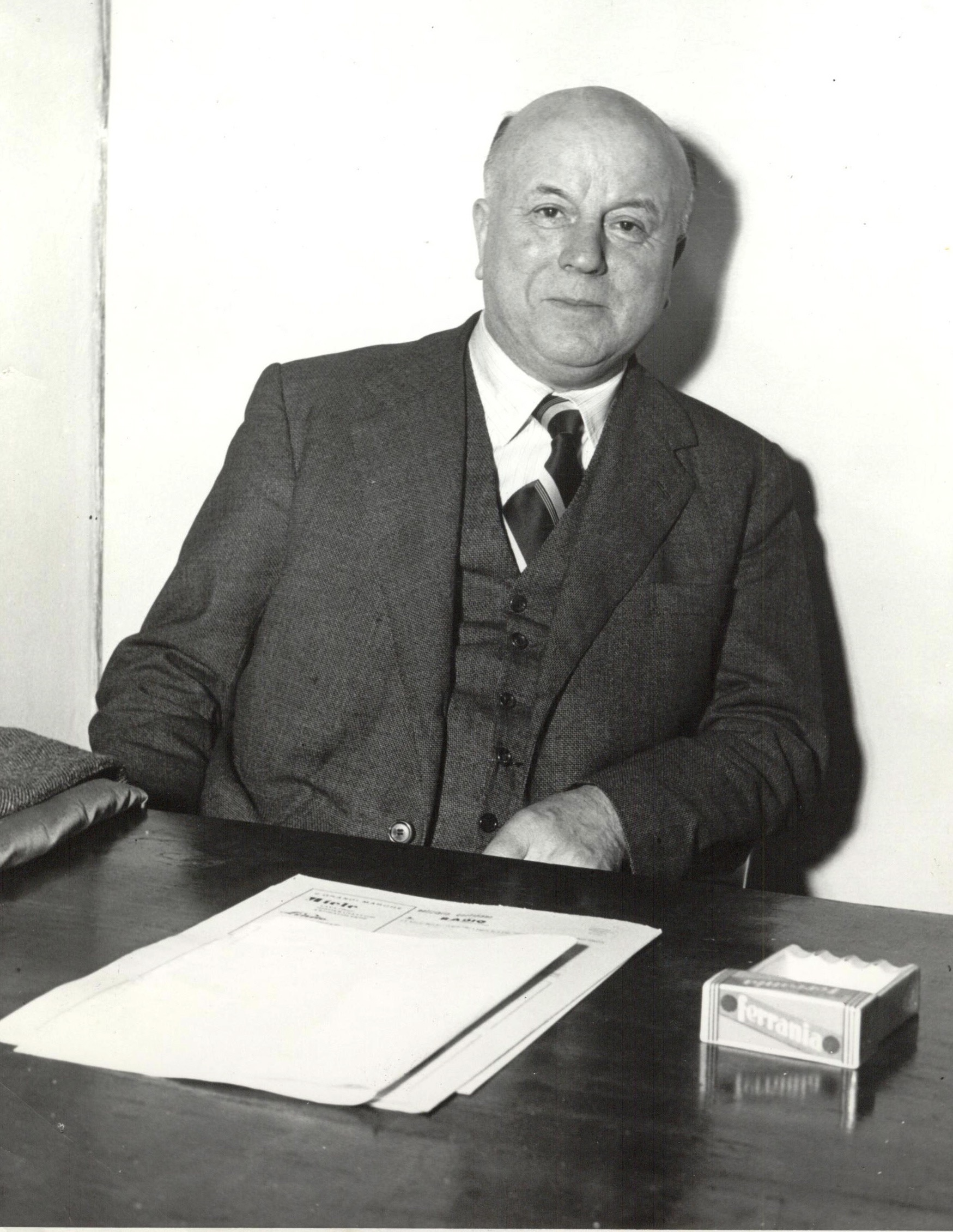 last photo of Attilio Prevost (1890-1954) taken at the Milan Fair on 20.04.1954